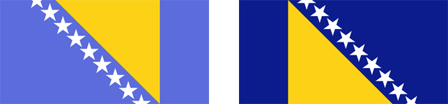 Irregular shapes of Bosnia and Herzegovina flag